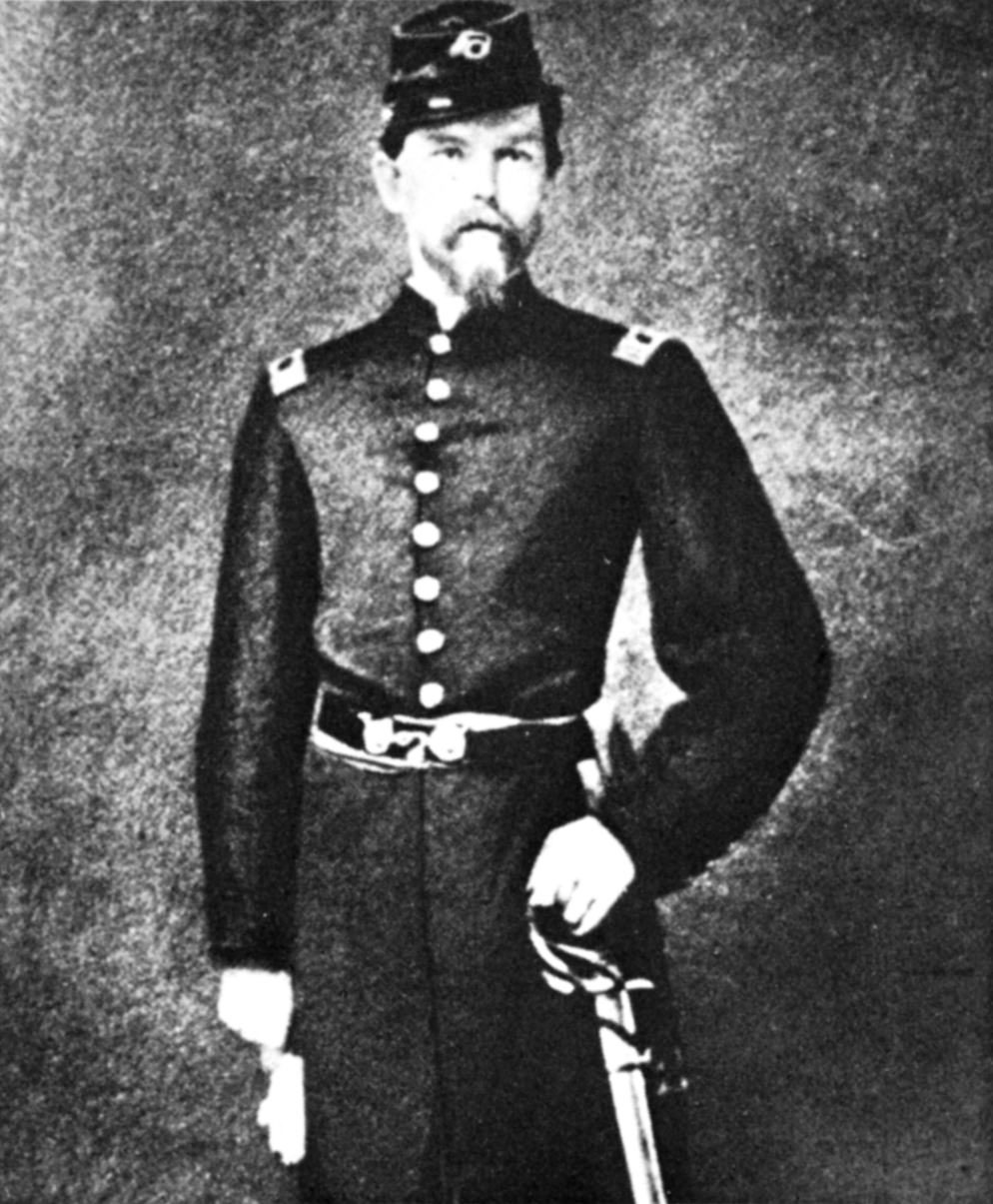 Later Swiss Federal Councillor Emil Frey in the uniform of the 82nd Illinois infantery regiment 1862.